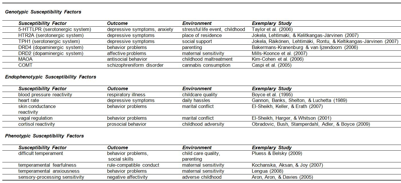 List of different susceptibility factors